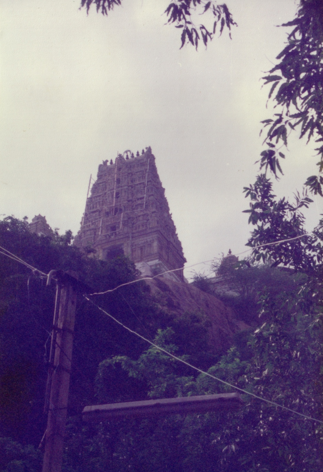 Sholinghur is a famous temple town in Tamil Nadu. Here is a view of the Lakshmi Narasimhaswamy temple atop a hillock. This has been taken from half-way up the climb to the temple.